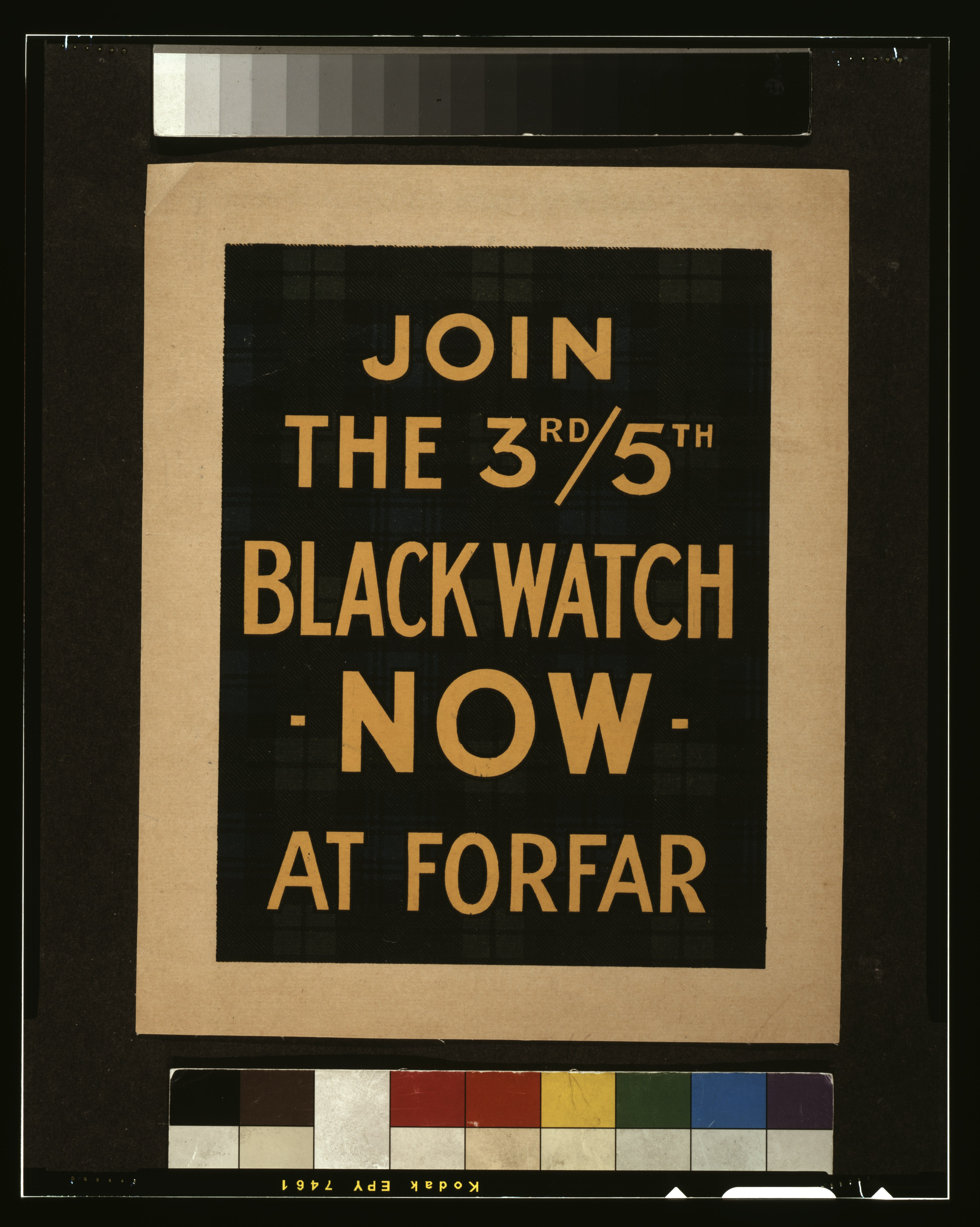 Title: Join the 3rd/5th Black Watch now, at Forfar Physical description: 1 print (poster) : lithograph, color ; 27 x 21 cm. Notes: Poster is text only, on a background of Black Watch tartan.; Title from item.